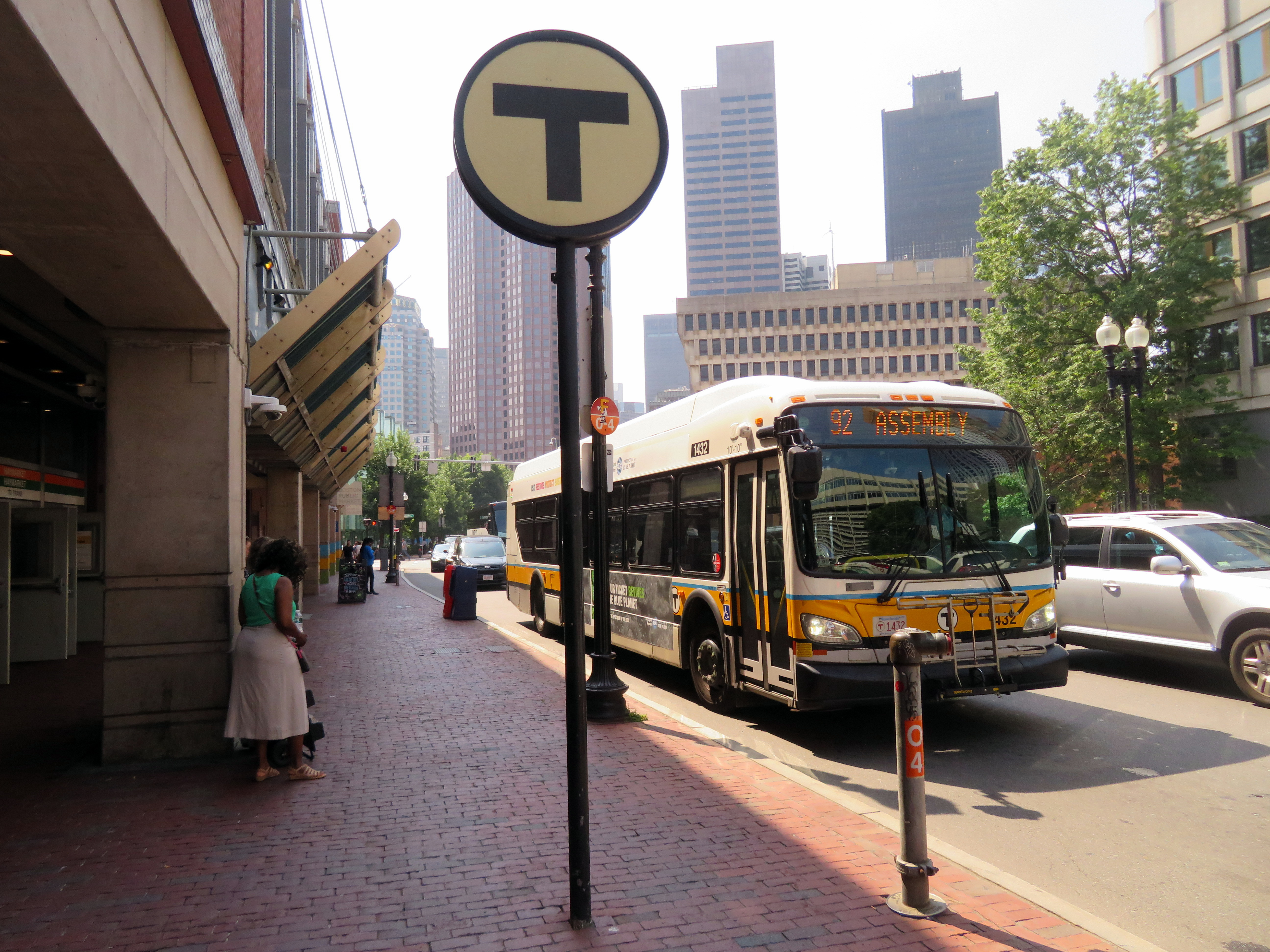 MBTA route 92 bus on Congress Street at Haymarket station in July 2019